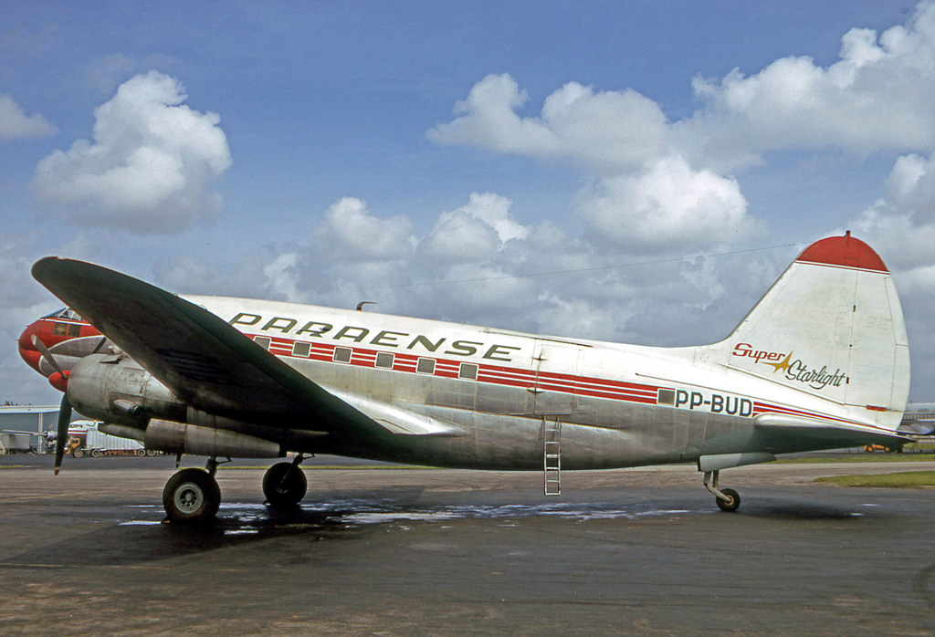 Curtiss C-46A Commando PP-BUD of Paraense at Miami International Airport in 1970